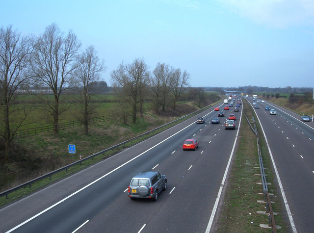 M6 Motorway north of Junction 17 Looking northwest from where Ward's Lane crosses the motorway about 2.5 kms north of Junction 17, Sandbach.